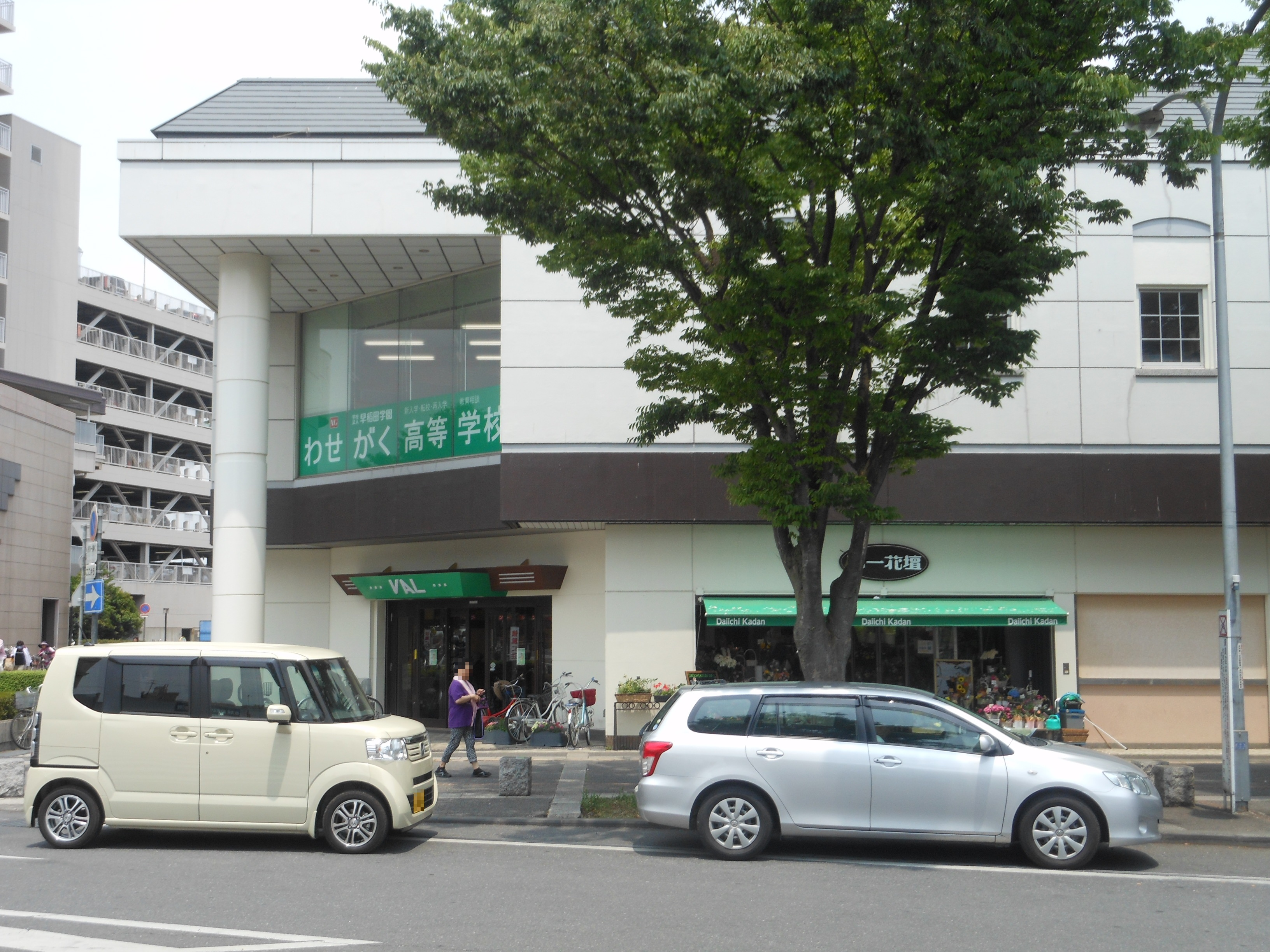 This is Koga station building "VAL KOGA" in Koga, Ibaraki, Japan. It has Wasegaku high school Koga learning center.